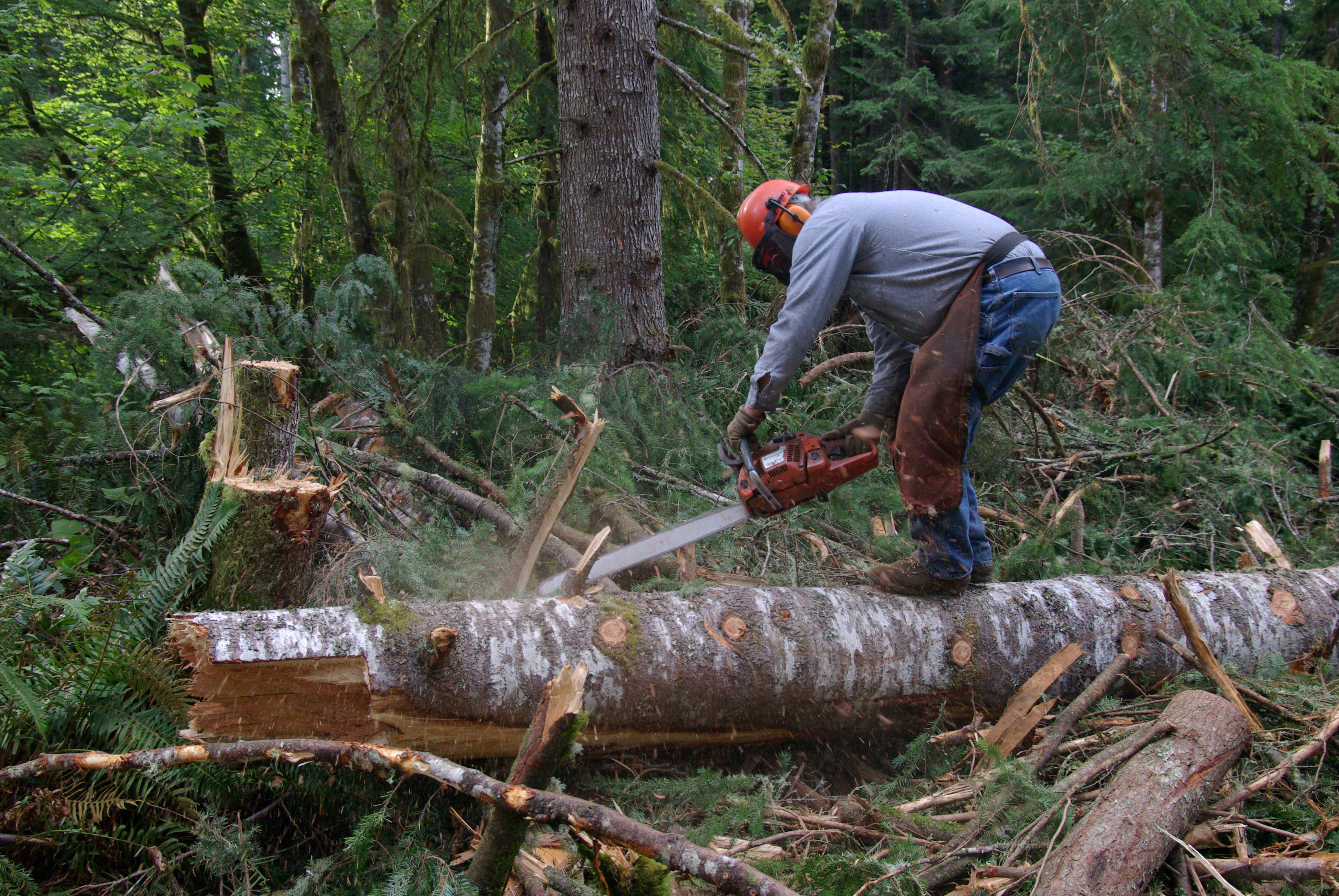 Chainsaw in use limbing a tree near Apiary See Log bucking for more photos of this same operation.